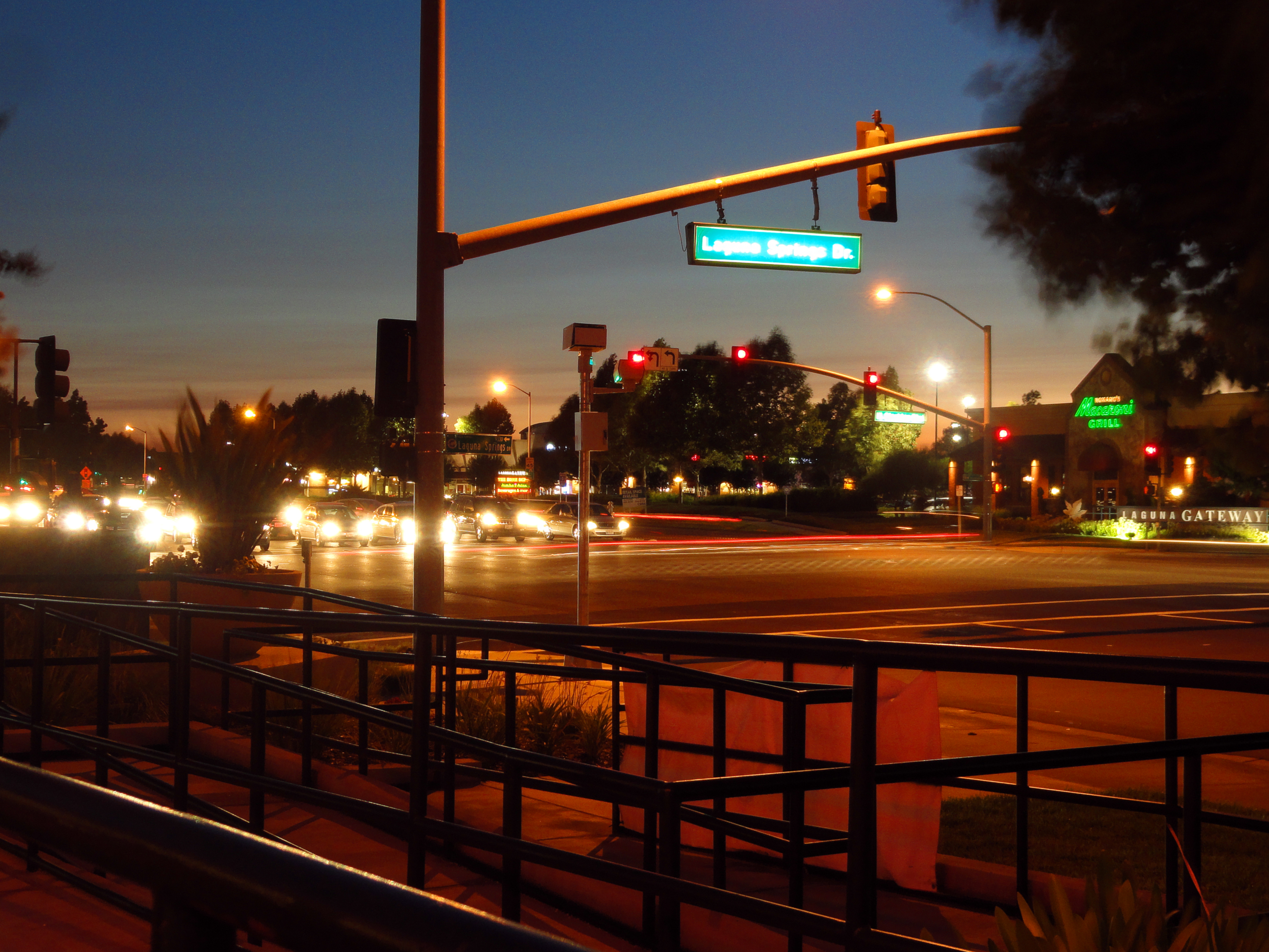 Intersection of Laguna Springs Dr and Laguna Blvd in the City of Elk Grove California.